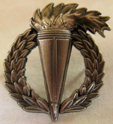 South African Army - Pathfinder proficiency badge (Metal) for Step-out uniform